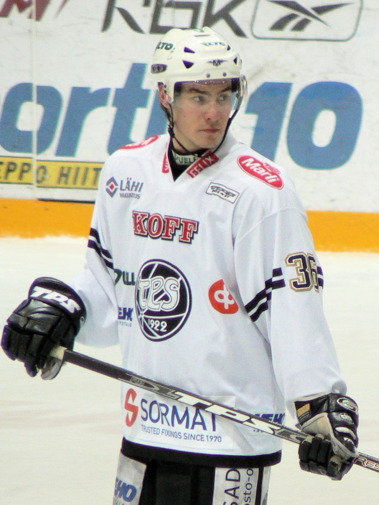 Finnish ice hockey defenseman Joonas Järvinen playing for TPS Turku in January, 2009.